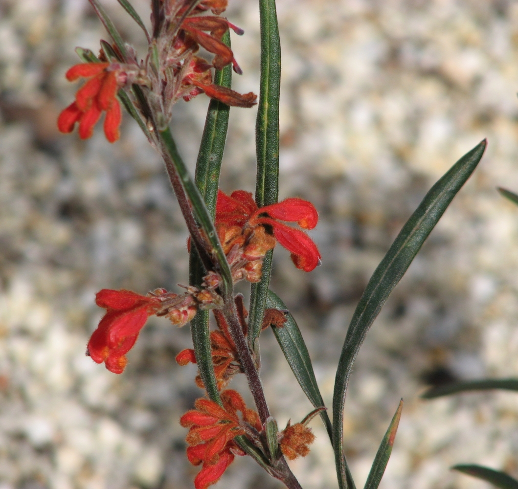 Grevillea bronwenae Red Ochre (cultivated, labelled) Maranoa Gardens, Balwyn, Victoria, Australia